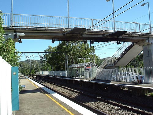 Photograph of Narara Railway Station in Narara, NSW, Australia. Taken April 20th, 2006. High resolution image is available at